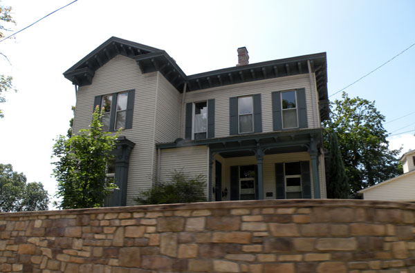 Picture of the Arthurs-Johnson House located at 6925 Ohio River Boulevard in Ben Avon, Allegheny County, Pennsylvania, on July 30, 2011. The house was built in 1873, and it is on the List of Pittsburgh History and Landmarks Foundation Historic Landmarks.